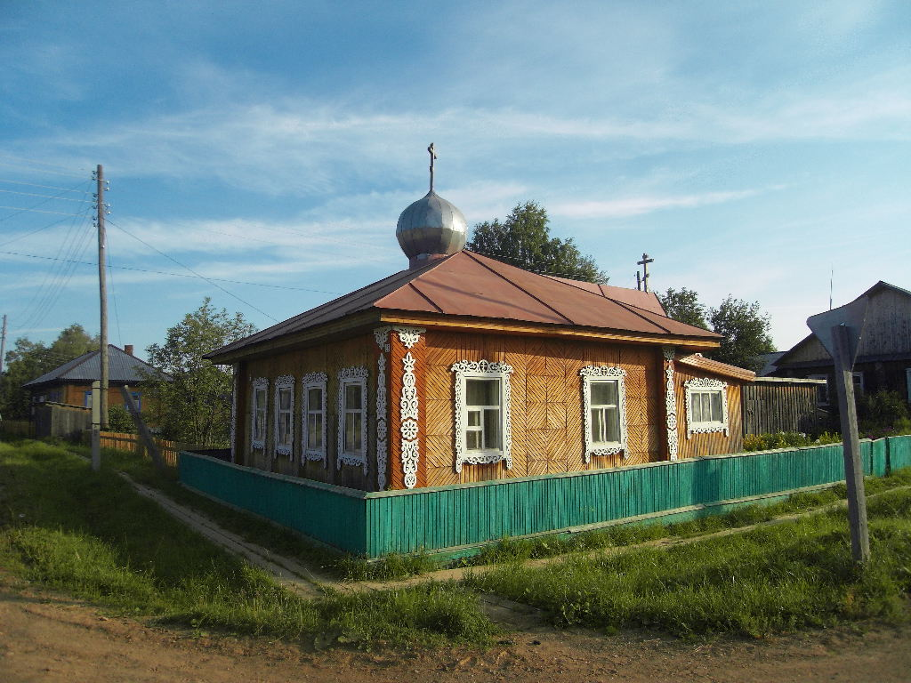 the house of worship in Biserovo